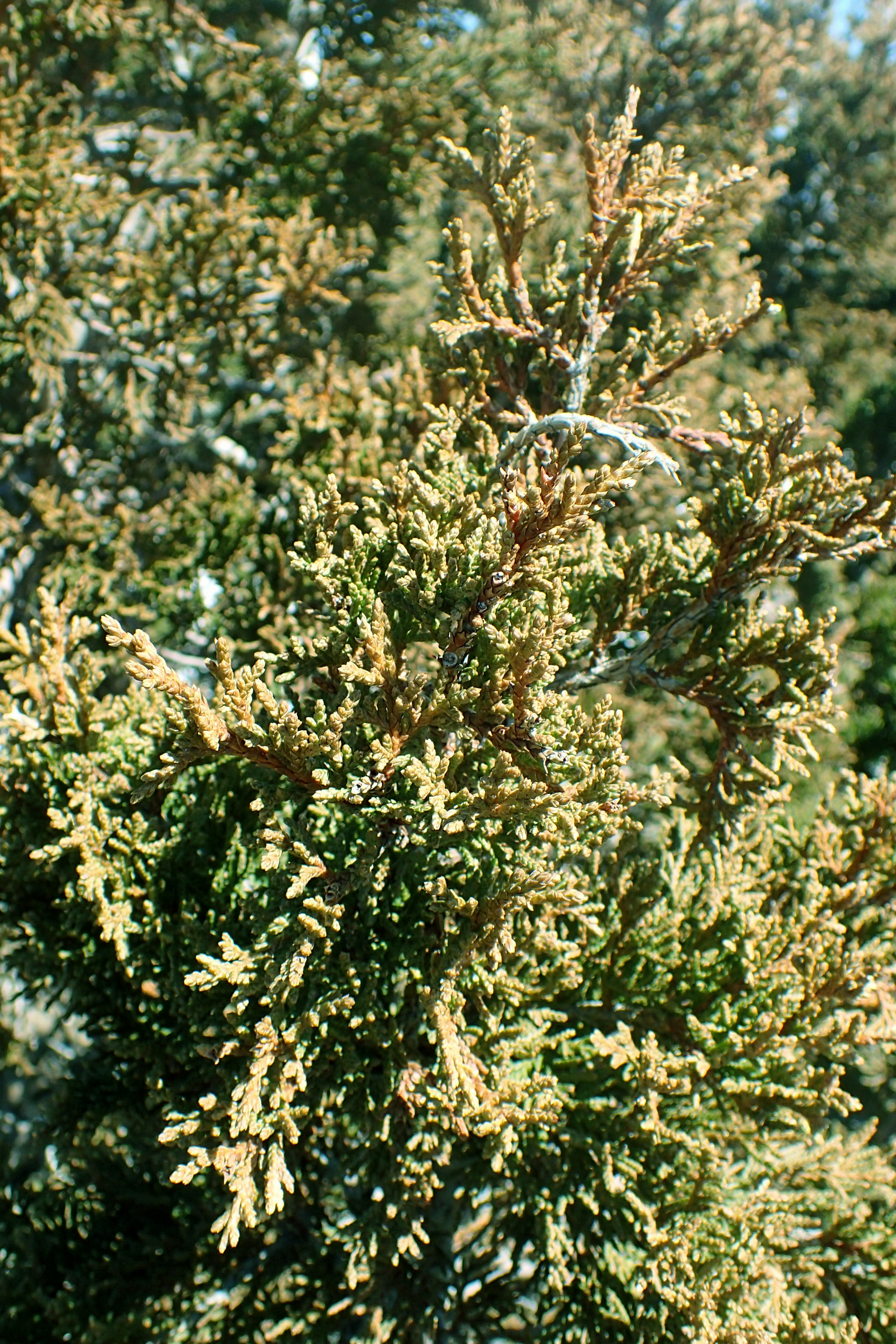 Juniperus foetidissima on Troodos Mountains, Cyprus